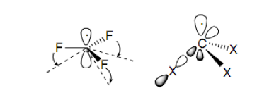 fdsfdasf